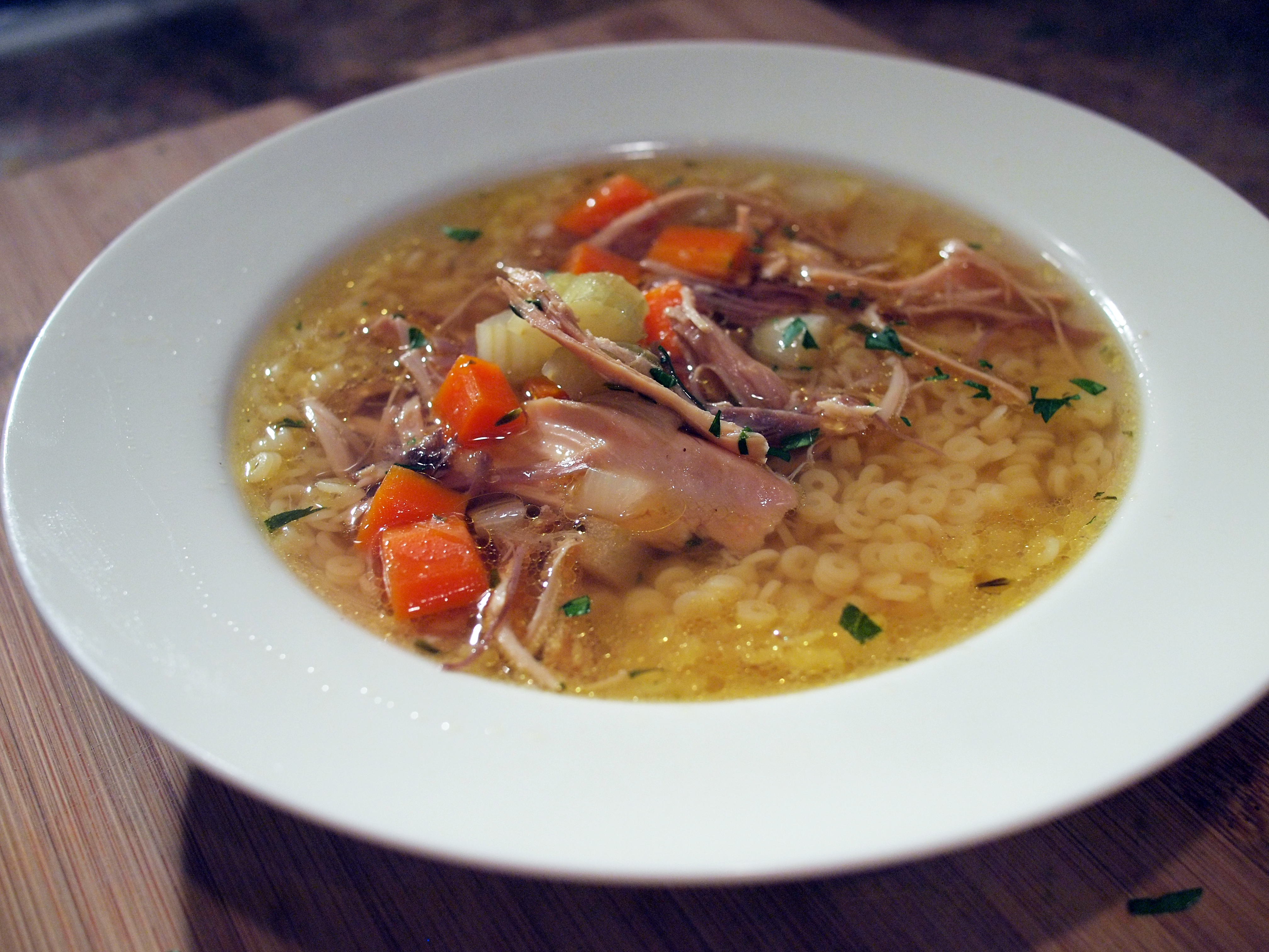 Chicken Noodle Soup made in the classic French / American preparation with a stewing hen.